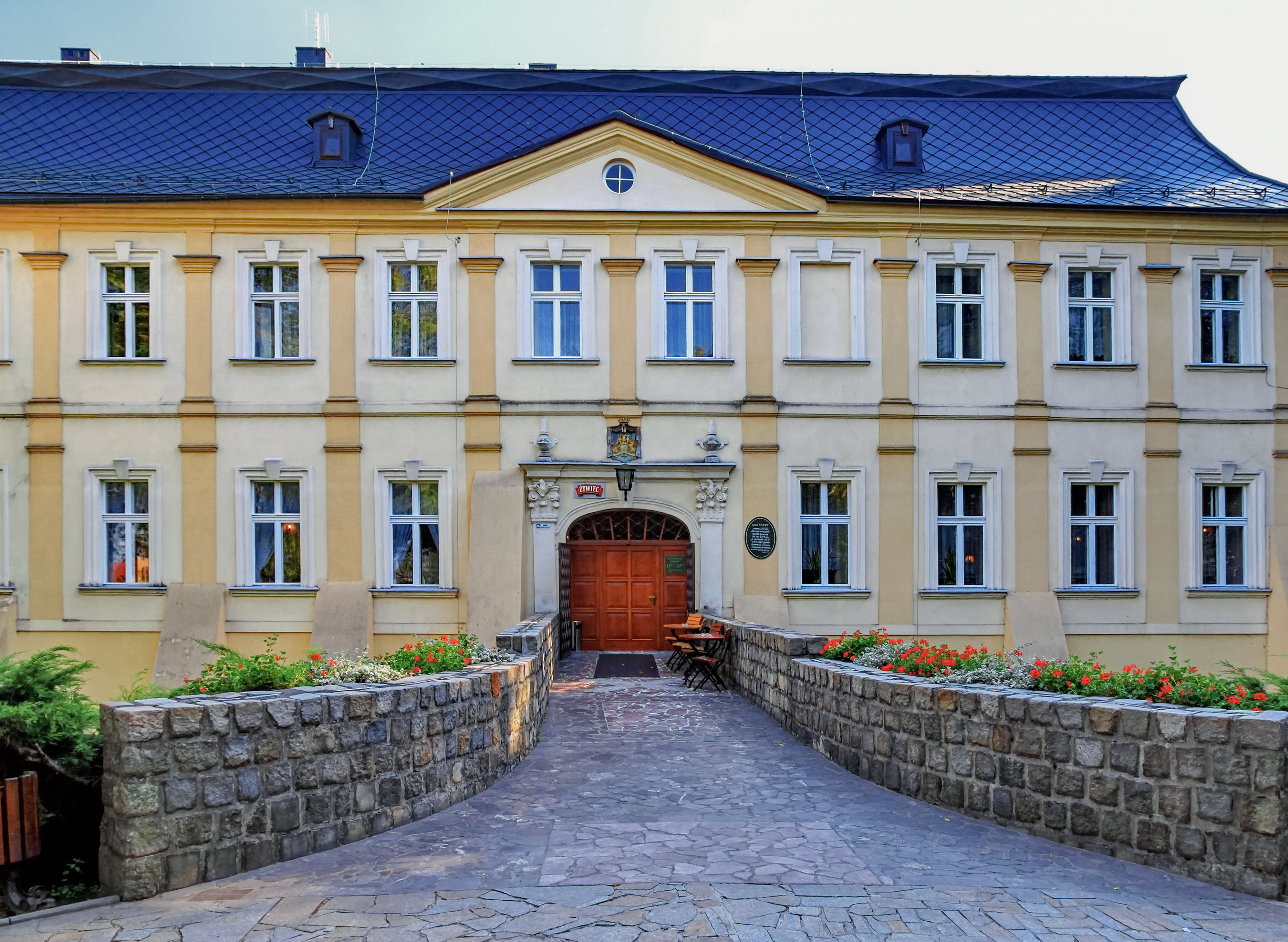 Palace (Bogumin Castle). Chałupki, Silesian Voivodeship, Poland.